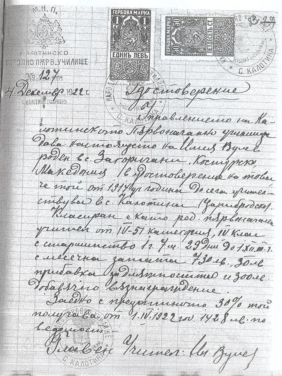 Iliya Vulev's certificate as a teacher in primary school in the village of Kalotina, Bulgaria, signed by himself as a head teacher, December 4th, 1922.